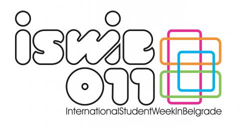 Официјални лого фестивала 2011. године